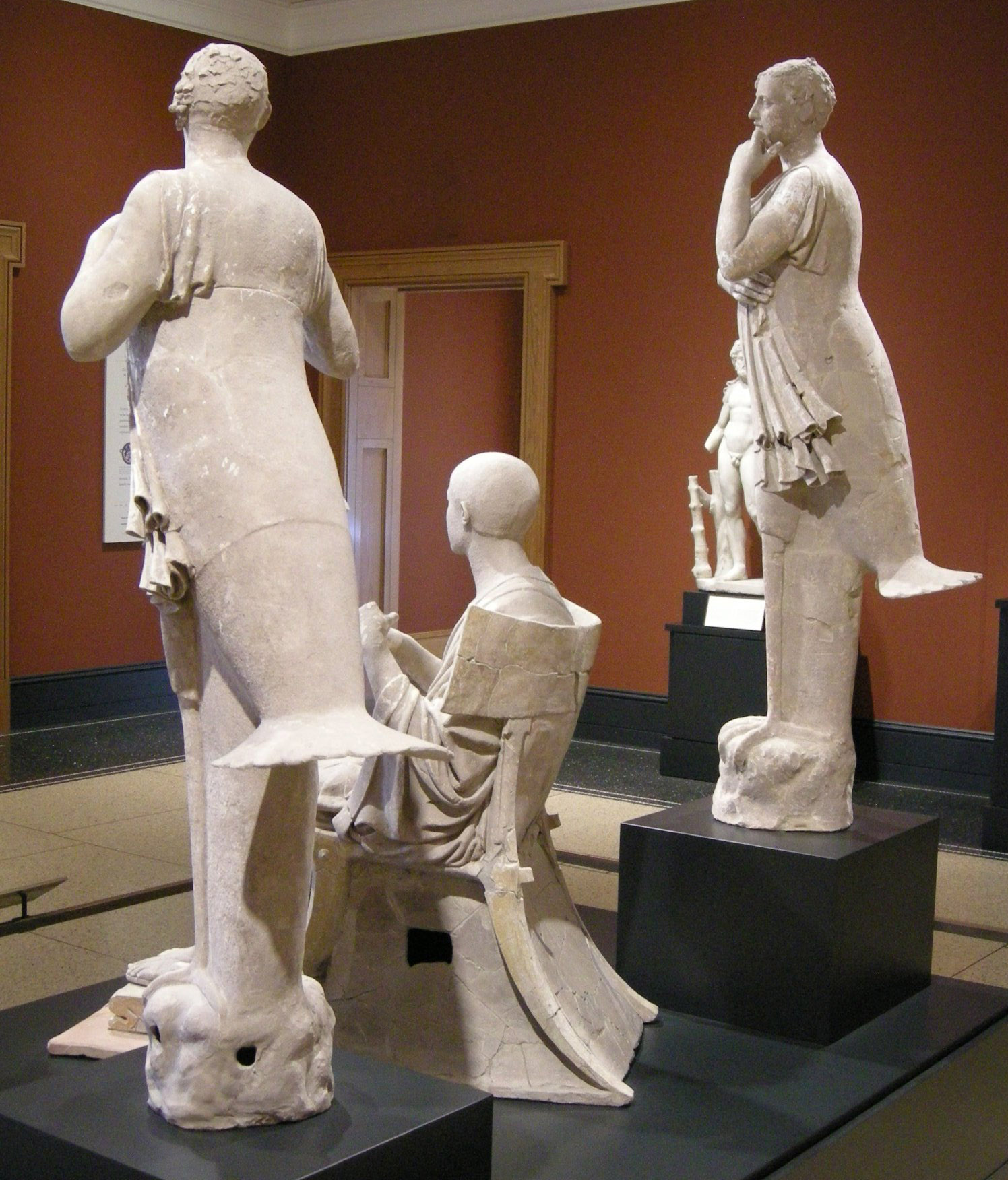 Getty Villa Native nameGetty VillaParent institutionJ. Paul Getty MuseumLocation17985 Pacific Coast HighwayPacific Palisades, California {Postal code } United States of AmericaCoordinates34° 02′ 41.5″ N, 118° 33′ 56.08″ W Established1974Web page control : Q180401 VIAF: 270917417 ULAN: 500125181 OSM: 6180870 BNF: 15839410f BIBSYS: 6047271 institution QS:P195,Q180401